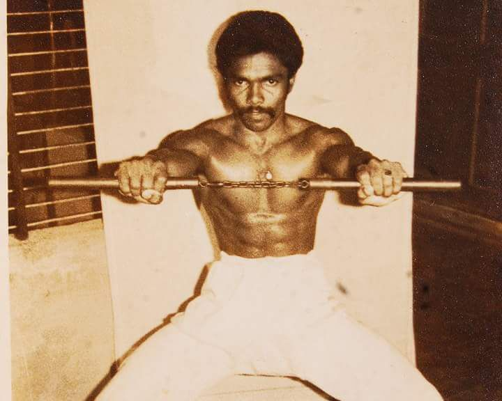 Jaguar Thangam at his 40th age